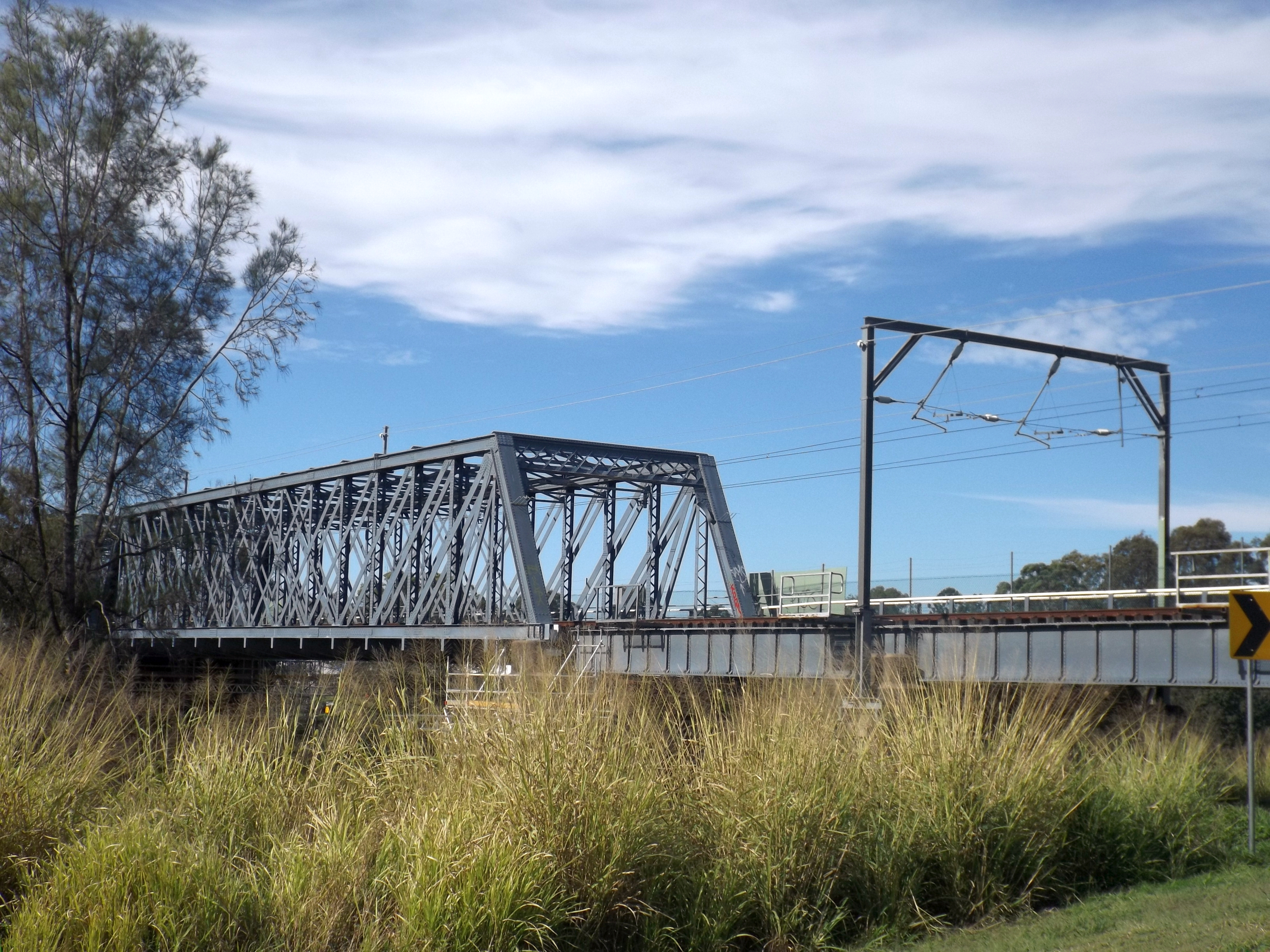 Photo of Sadliers Crossing Railway Bridge at Wulkuraka Ipswich, Queensland, Australia.